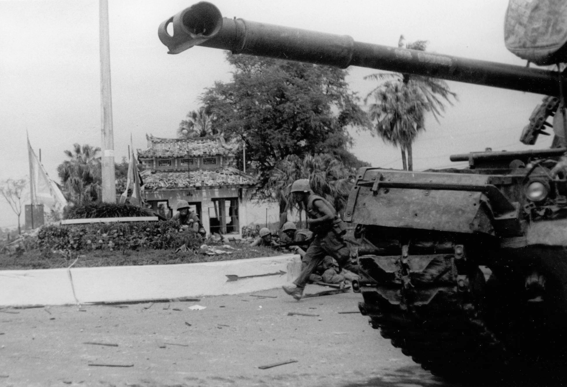 "Dash For Cover: Supported by tanks, Marines move to clear buildings in street fighting near Hue University"